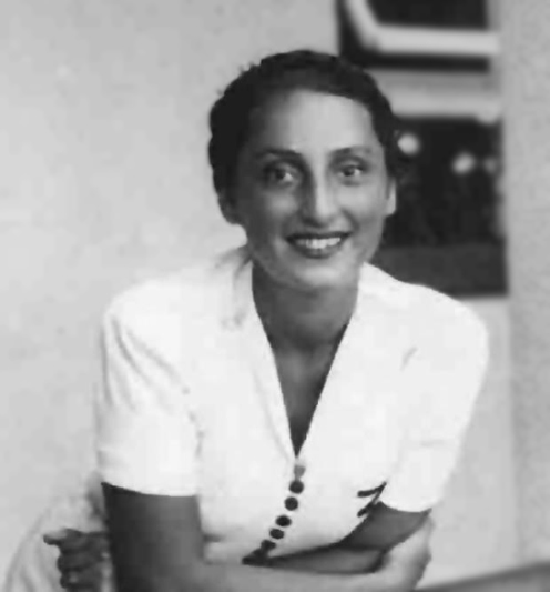 Zuzanna Ginczanka, pen name Sara Ginzburg (1917–1944), Polish Jewish poet of the interwar period, author of the book O centaurach (About the Centaurs), a literary sensation in prewar Poland. She died in Kraków before the end of World War II.